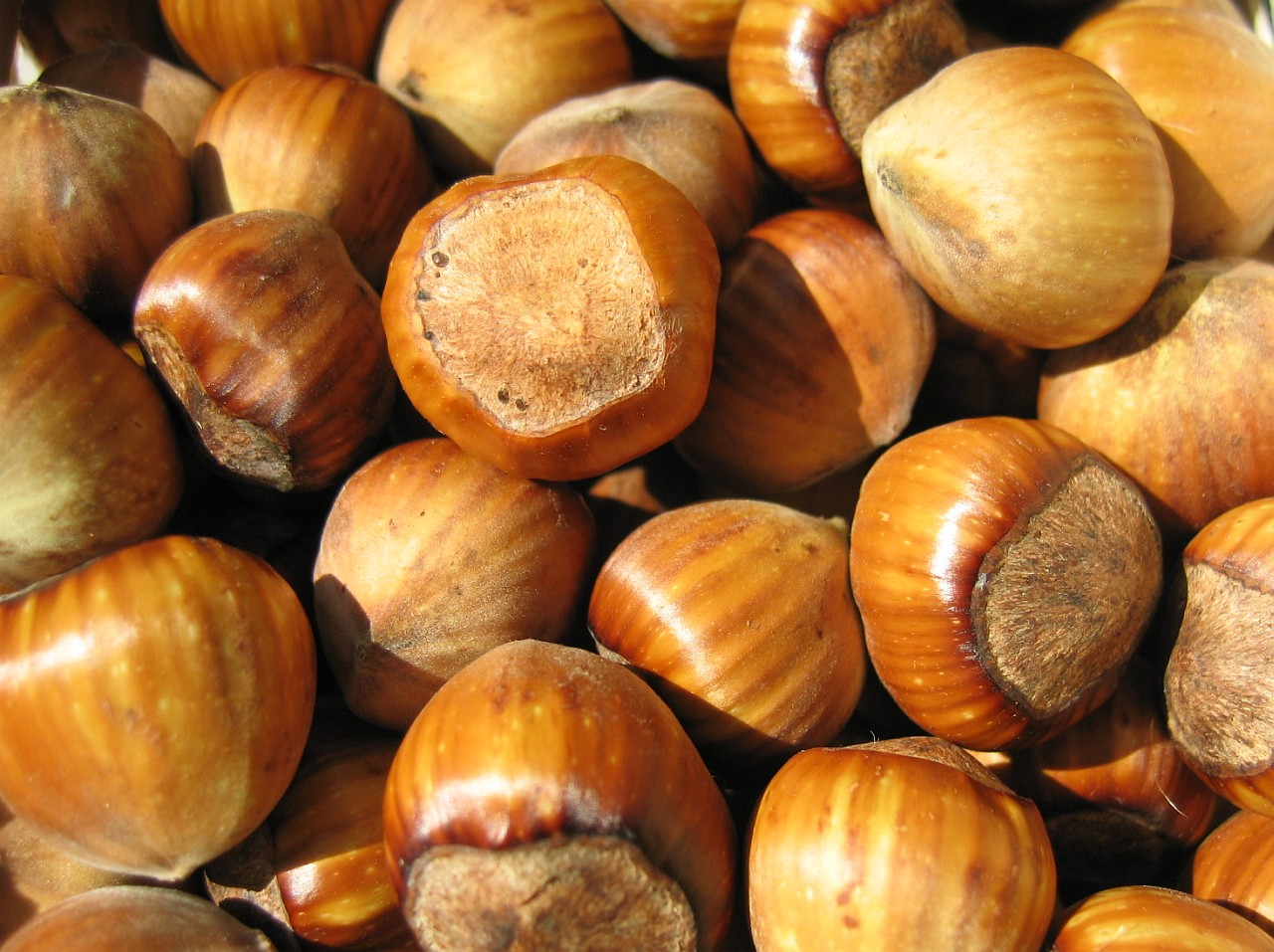 Huzelnuts, fruit of Corylus avellana, Wrocław, Poland.